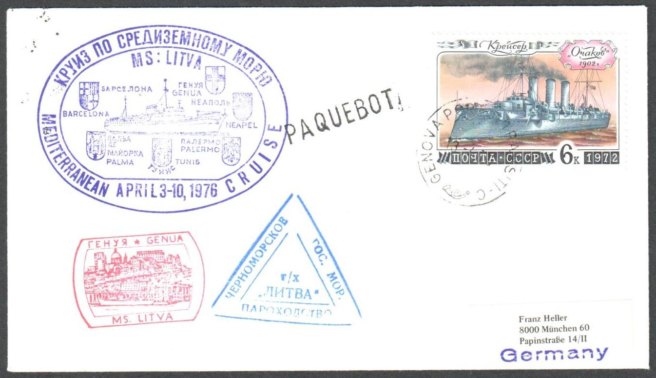 Built: 1960. Mathias-Thesen-Werft, Wismar, (East) Germany. Technical: Overall length: 121.9 m Beam: 16.1 m Draft: 5.3 m Gross Tonnage: 5169 tons Passengers: 333 Power: 8000 HP Service Speed: 18.5 knots Operating Routes: European and North African liner and cruising routes. Mostly Black Sea, Mediterranean and Aegean. Names: M.S. Odessa Dream (1991, never in effect) M.S. Boguchar (1994) M.S. Fujian (1995) M.S. Green Coast (May, 2000) Owners: 1960-1995: Black Sea Shipping Company (BLASCO), Odessa, Soviet Union, then Ukraine. 1995-Present: Fujian Shipping, Hong Kong. Operated by the Green Coast Shipping, Hong Kong, since May, 2000. One of the 19 ships of the Mikhail Kalinin class, in 2012 one of the few still sailing. MIKHAIL KALININ: scrapped 1993 FELIKS DZERSHINSKIY: sank 1993 GREGORIY ORDZHONIKIDZE: laid up in Vladivostok M. URITSKIY: scrapped 1996 VATSLAV VORVSKIY: scrapped in 1992 MARIYA ULJANOVA: scrapped in 1993 ESTONIYA: scrapped in 1997 LATVIYA: scrapped in 1995 VLADIVOSTOK: scrapped in 1989 after fire LITVA: still sailing as the GREEN COAST PETROPAVLOVSK: scrapped in 1995 TURKMENIYA: scrapped in 1997 KHABAROVSK: scrapped in 1992 NIKOLAYEVSK: laid up in Sotchi NADEZHDA KRUPSKAYA: scrapped in 1998 ARMENIYA: scrapped in 1995 BASHKIRIYA: still sailing as the SILVER STAR ADZHARIYA: scrapped in 1996.